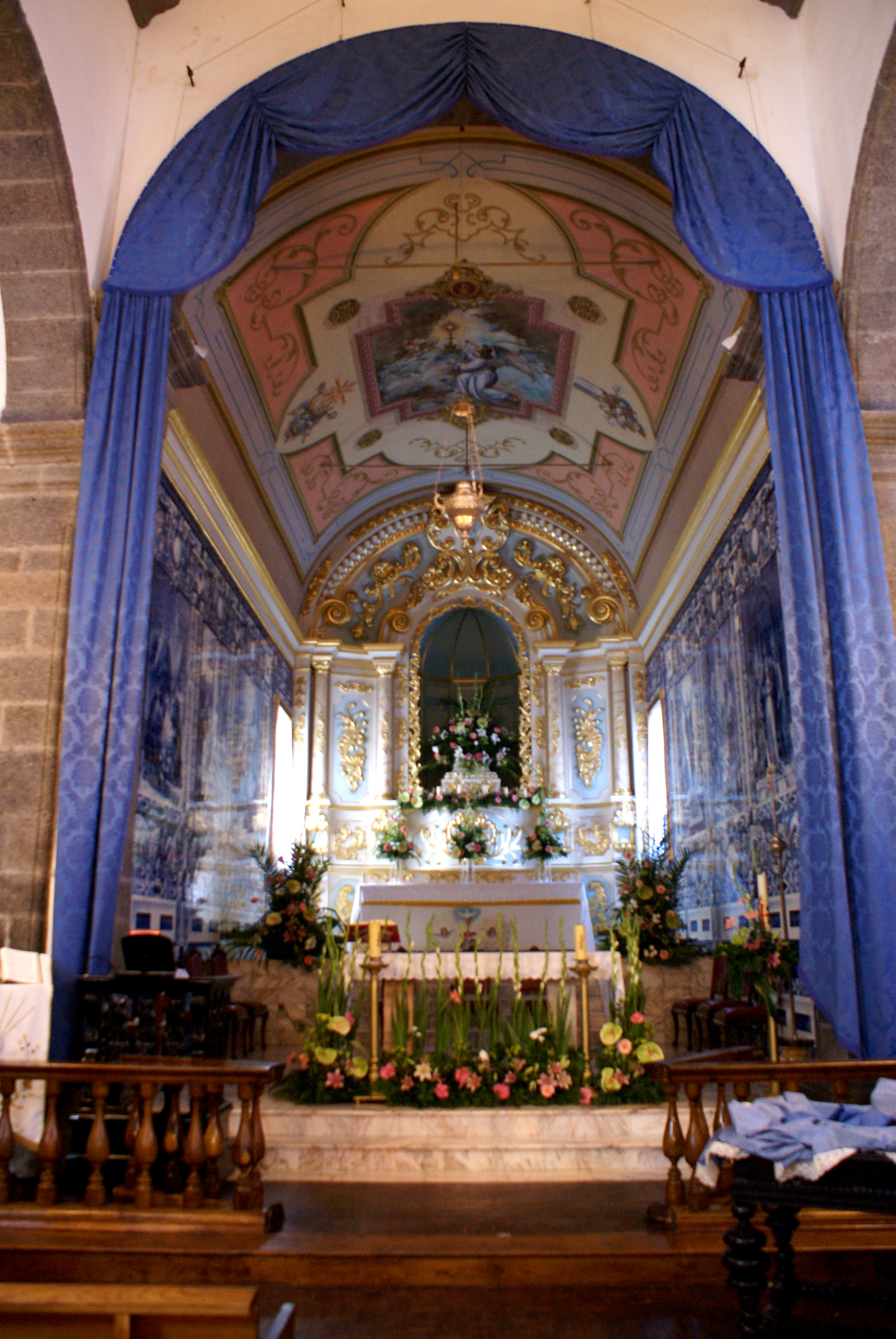 Main alter in the Church of Nossa Senhora da Ajuda, Ajuda da Bretanha, Ponta Delgada, São Miguel (Azores), Portugal